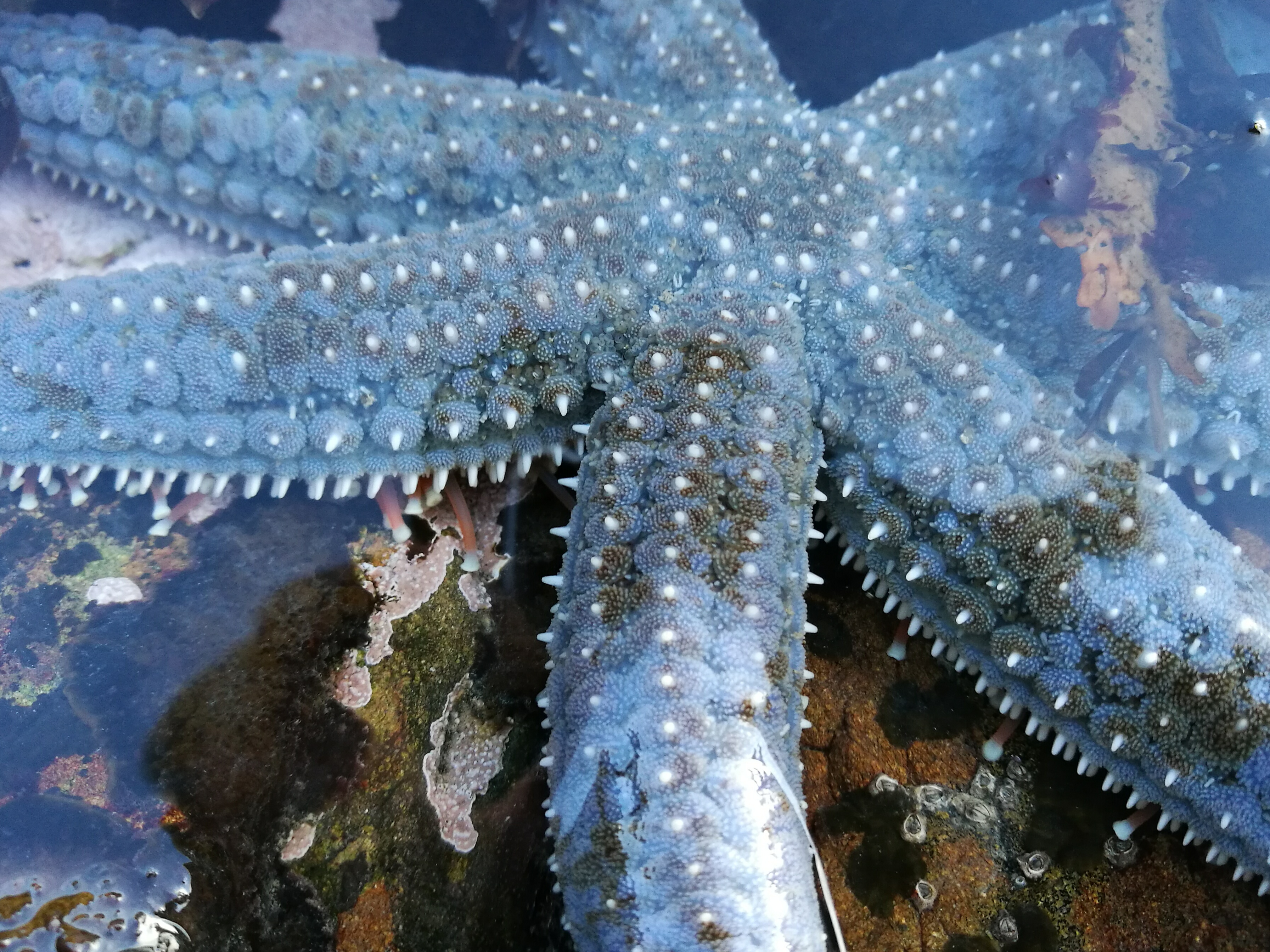 Nz sea star Astrostole scabra, Lyall Bay Wellington